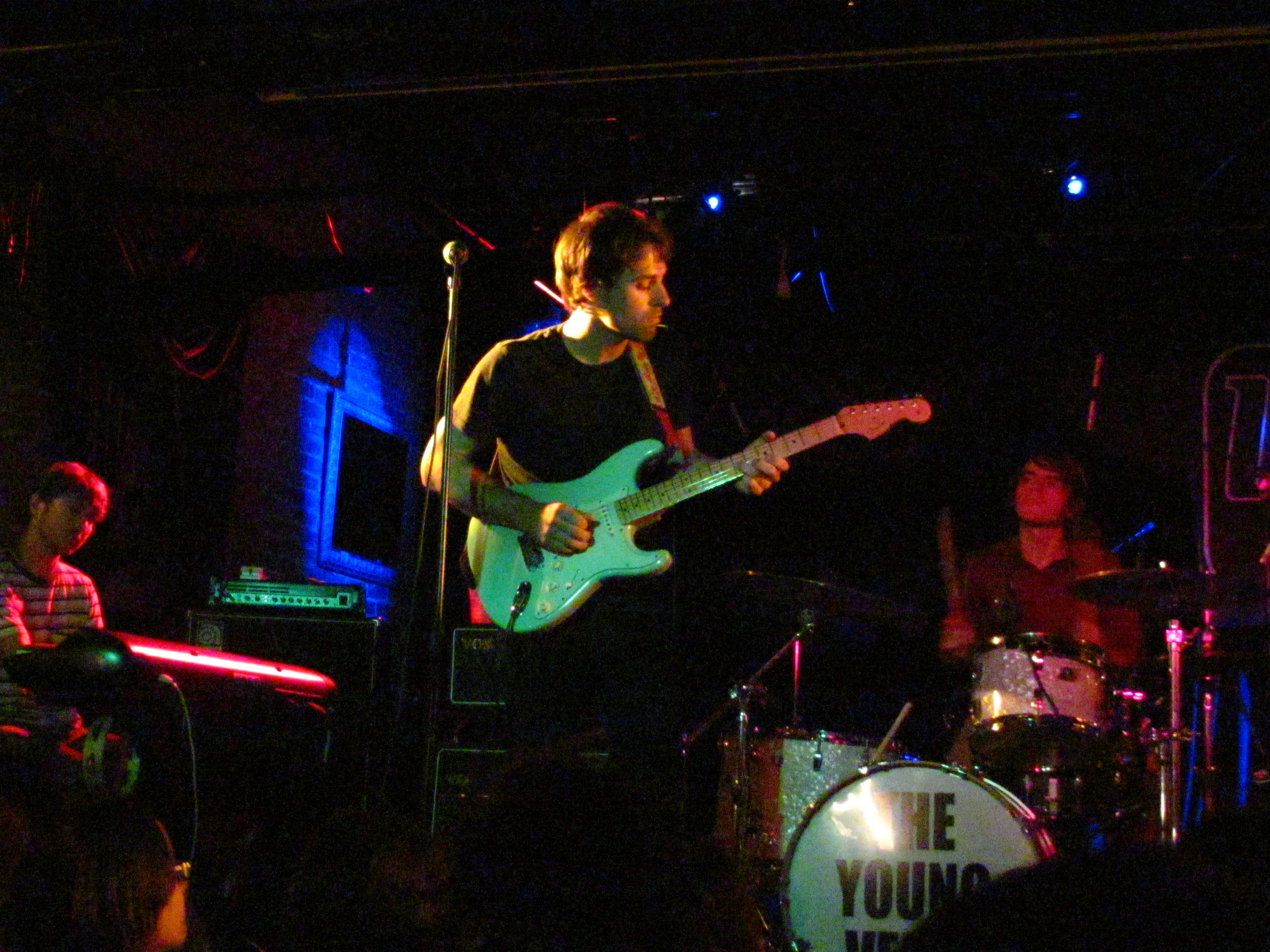 Jon Walker with The Young Veins at the Crazy Donkey, Farmingdale, NY, July 2010